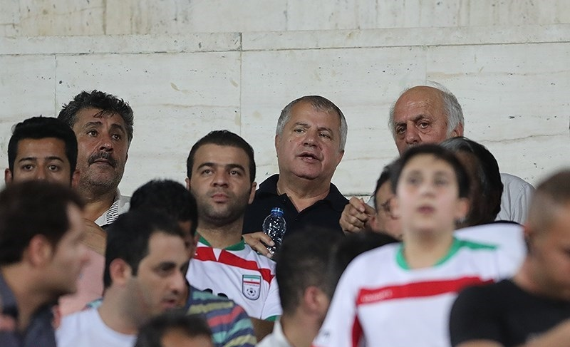 2018 FIFA World Cup qualification – AFC Third Round, Iran-Qatar